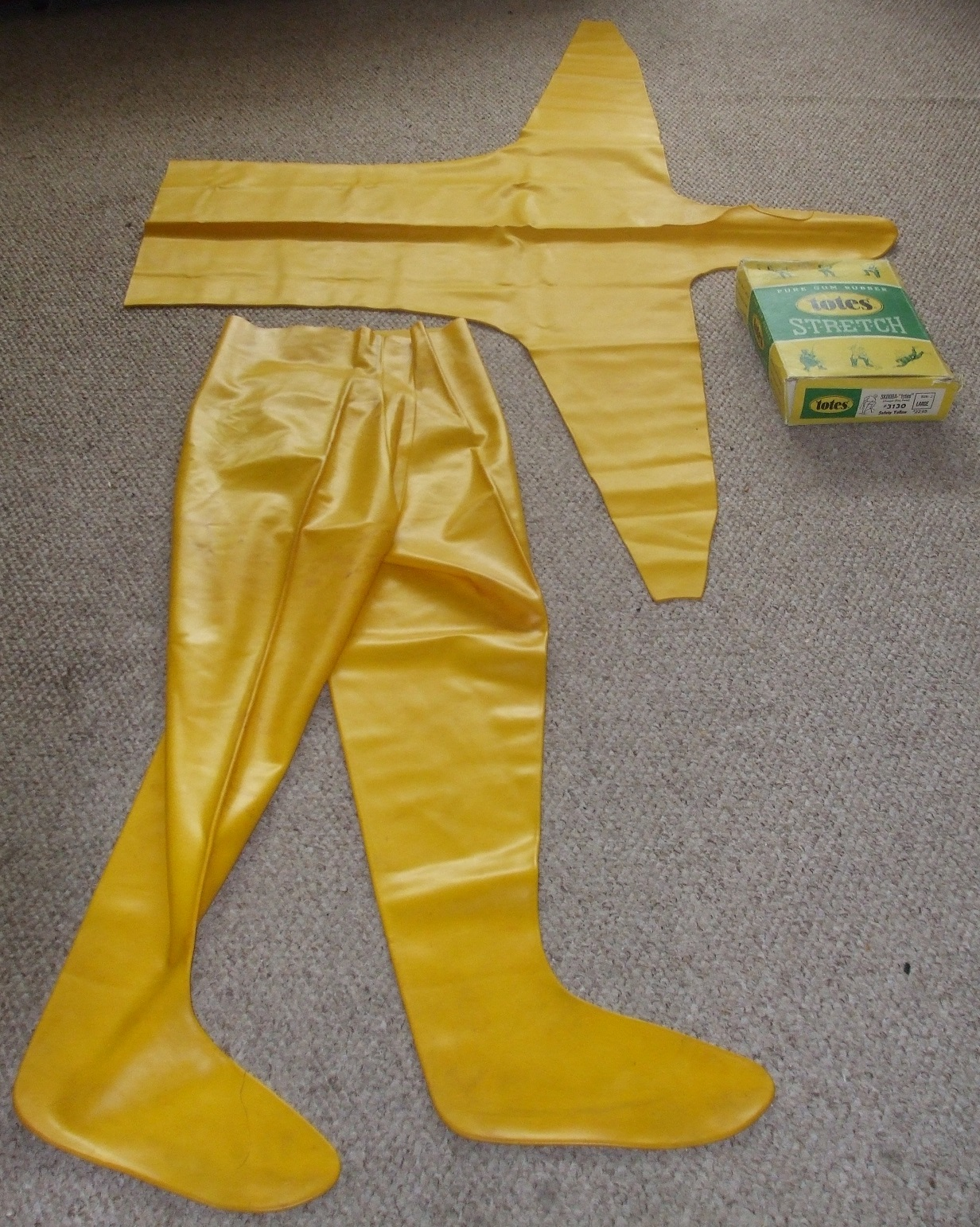 The image shows a yellow "Golden Tiger" Skooba-"totes" dry suit manufactured during the late 1950s or early 1960s by So Lo Marx Rubber Company of Loveland, Ohio, which also produced thicker brown and green "professional" Skooba-"totes" dry suits with reinforced feet. In addition to scuba diving, such suits were used in their time for snorkelling, spearfishing, waterskiing and even caving all year round. Clothing worn underneath provided warmth, while leak-tight seals at the wrists and the face prevented water ingress.